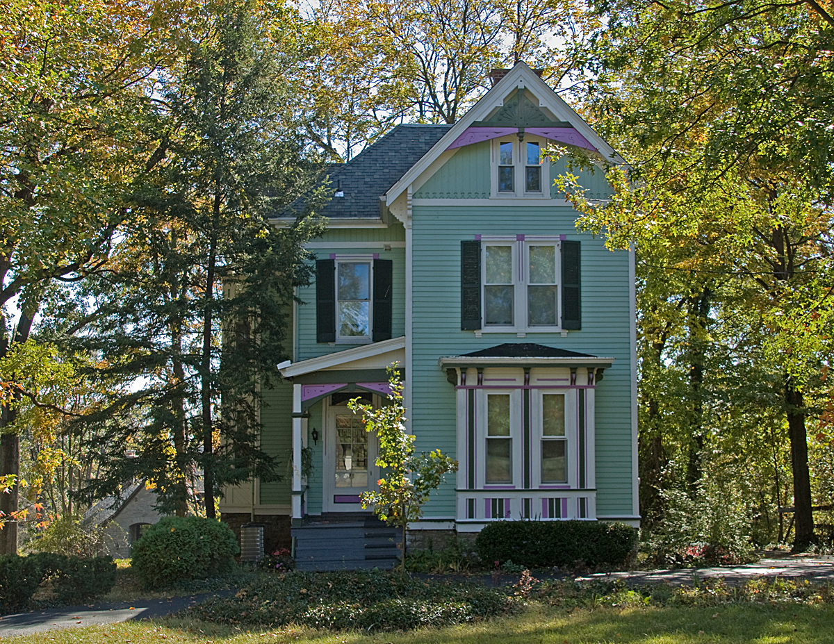 Charles Fay house in Wyoming, OH. Photo by Greg Hume